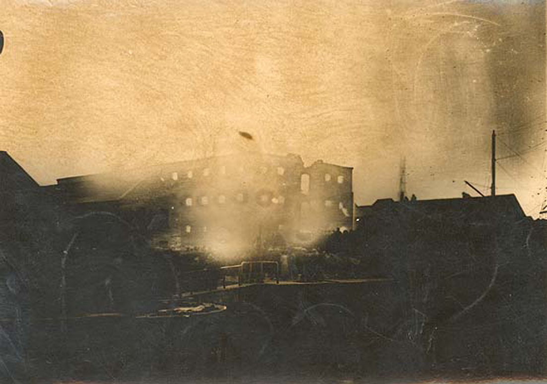 Apologies for the abysmal quality of this one, but still like it for the sense of immediacy. W.D. Hogan took this photo of a blaze at Paul and Vincent's Chemical Works on Sir John Rogerson's Quay. This was the report of the fire in the Irish Independent on Monday, 22 November 1920: "A large section of Messrs. Paul and Vincent's chemical works, [Sir John] Rogerson's quay, Dublin, was destroyed by fire yesterday. Three sections of the Fire Brigade arrived, but the fire had got such a grip that their efforts were restricted to preventing it spreading. This occupied fully 4 hours. The damage runs into thousands. The Brigade remained at work during the night. Two firemen, Joseph Byrne and James Walshe, were caught by a falling wall. Mr. Byrne has his left arm fractured and both legs bruised. Mr. Walsh [sic] got an ugly wound on the head. They were promptly removed to Sir Patrick Dun's Hospital." Unsure whether this was normal practice for the Irish Independent, but the above article was immediately followed by an ad for insurance from Hibernian Fire and General Insurance of Dame Street, Dublin! Date: Sunday, 21 November 1920 NLI Ref.: HOG174